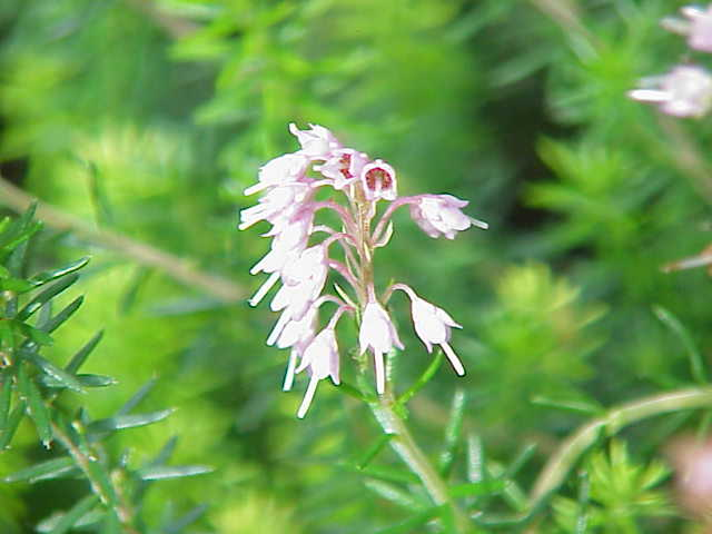 Species: Bruckenthalia spiculifolia Family: Ericaceae Image No. 1